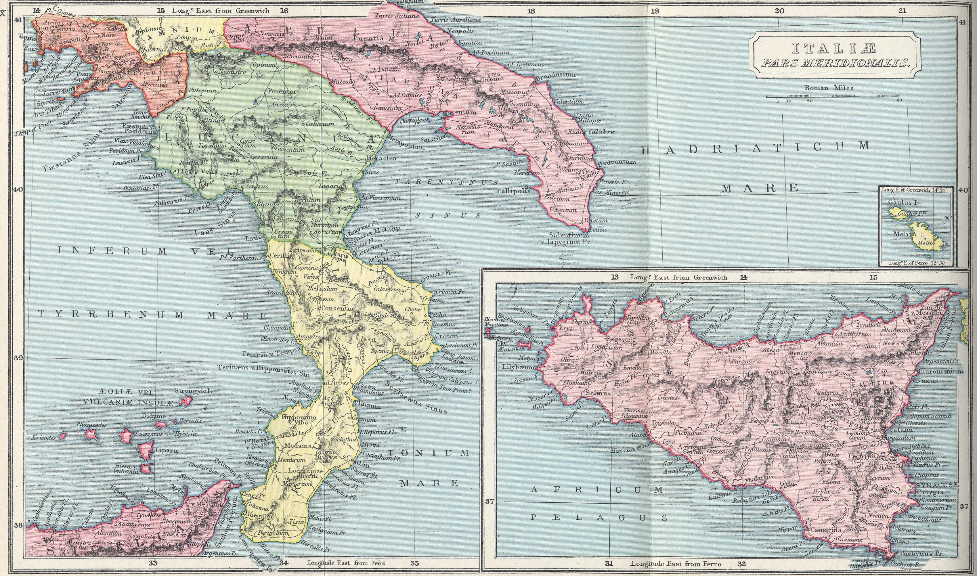 The Atlas of Ancient and Classical Geography by Samuel Butler